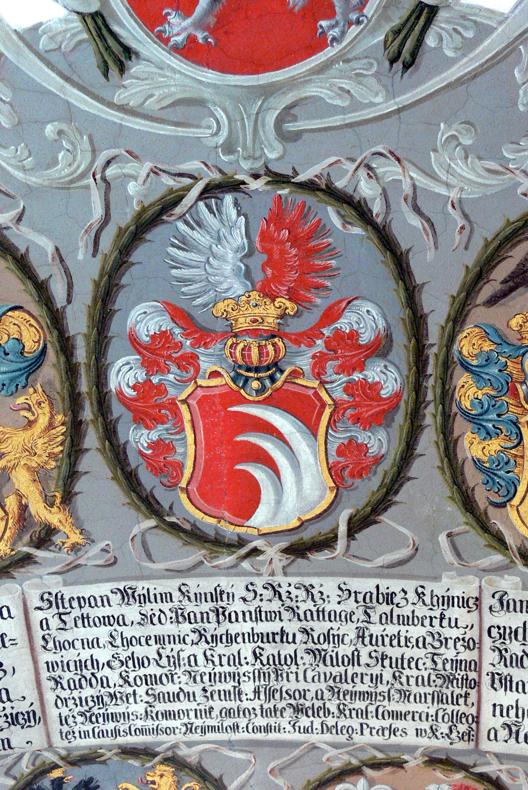 Office of the Bohemian Land Rolls (Prague Castle). Coats of arms of an member of the Kinsky family.